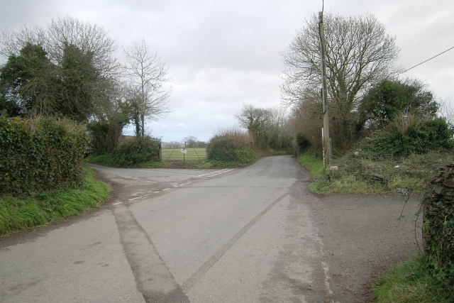 Tideford Cross. Tideford Cross, south east Cornwall. The 'main' road leads south to Tideford, a village split into two by the A38. The left fork leads to Landrake. Just beyond the telegraph pole is a dilapidated road sign 98958